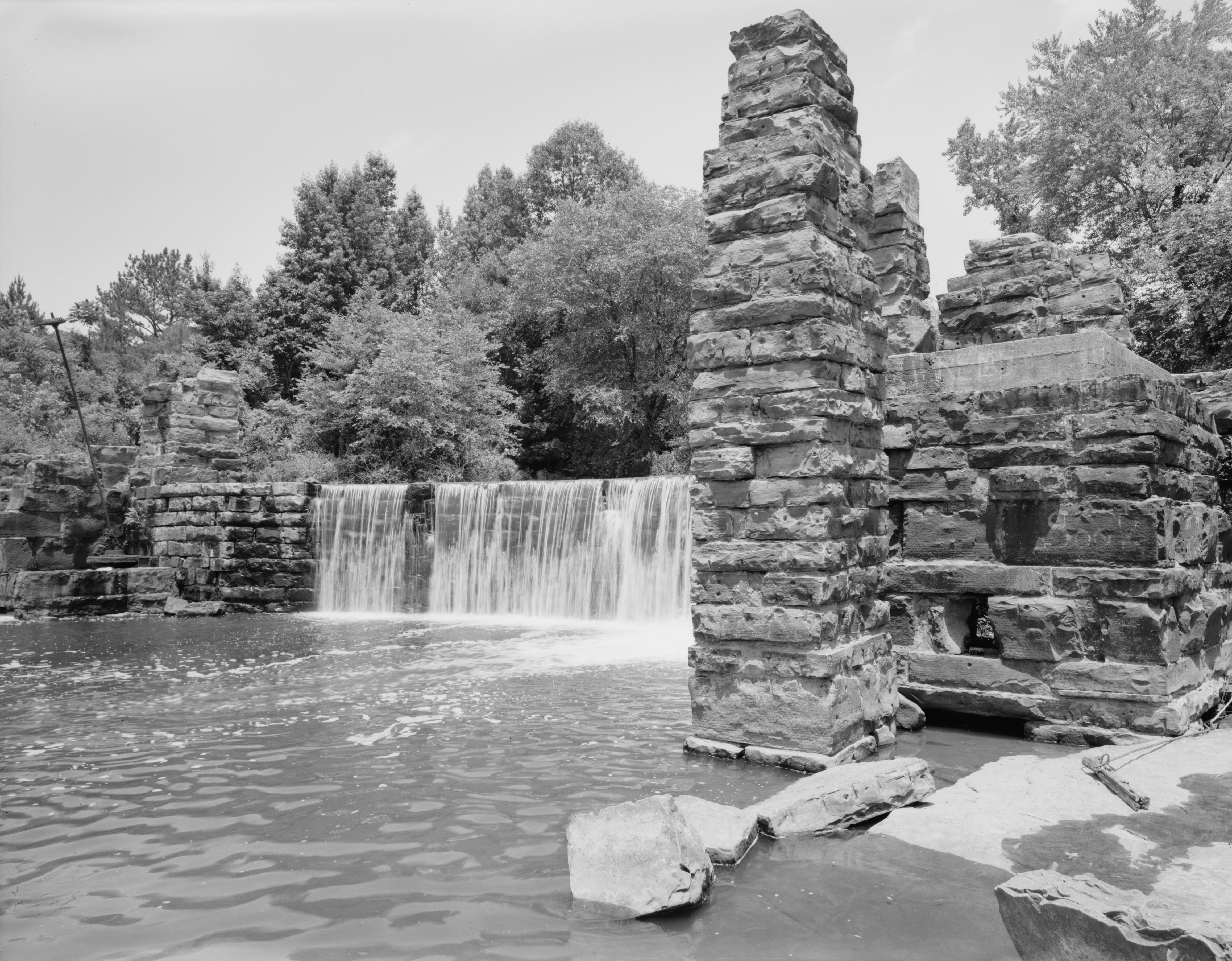 Boshell's Mill, Grist Mill, Bank of Lost Creek at State Route 124, South of U.S. 78, Townley (Walker County, Alabama) The gristmill was destroyed by fire in 1976, and the sawmill burned in 1986. Image: HAER—Historic American Engineering Record images of Alabama.